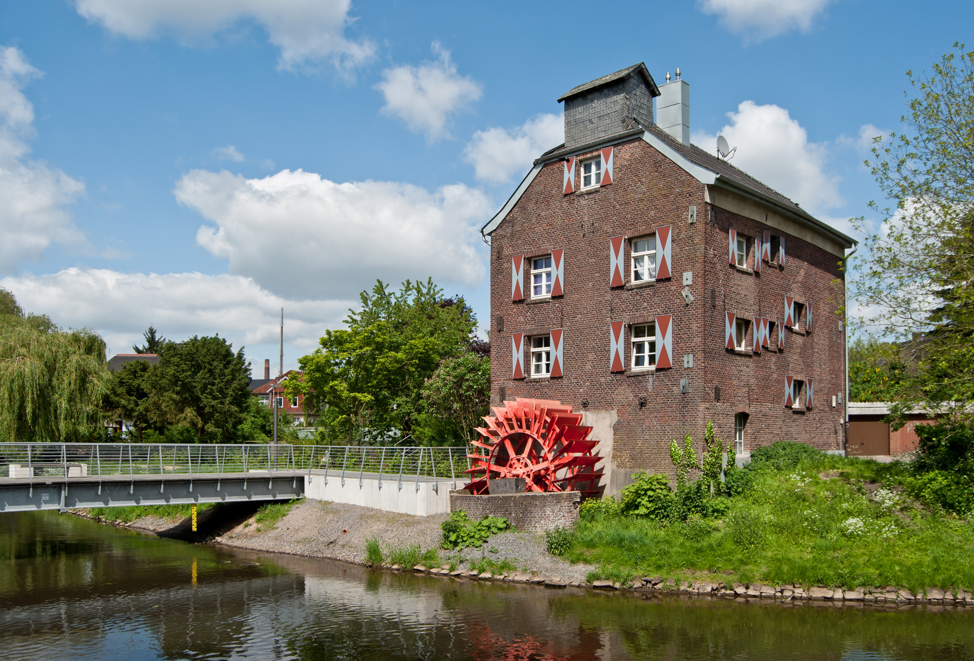 Goch (North Rhine-Westphalia, Germany) – former watermill Susmühle behind the river Niers This image shows a heritage building in Germany, located in the North Rhine-Westphalian city Goch (no. 12). This photograph was taken with a Nikon D3000